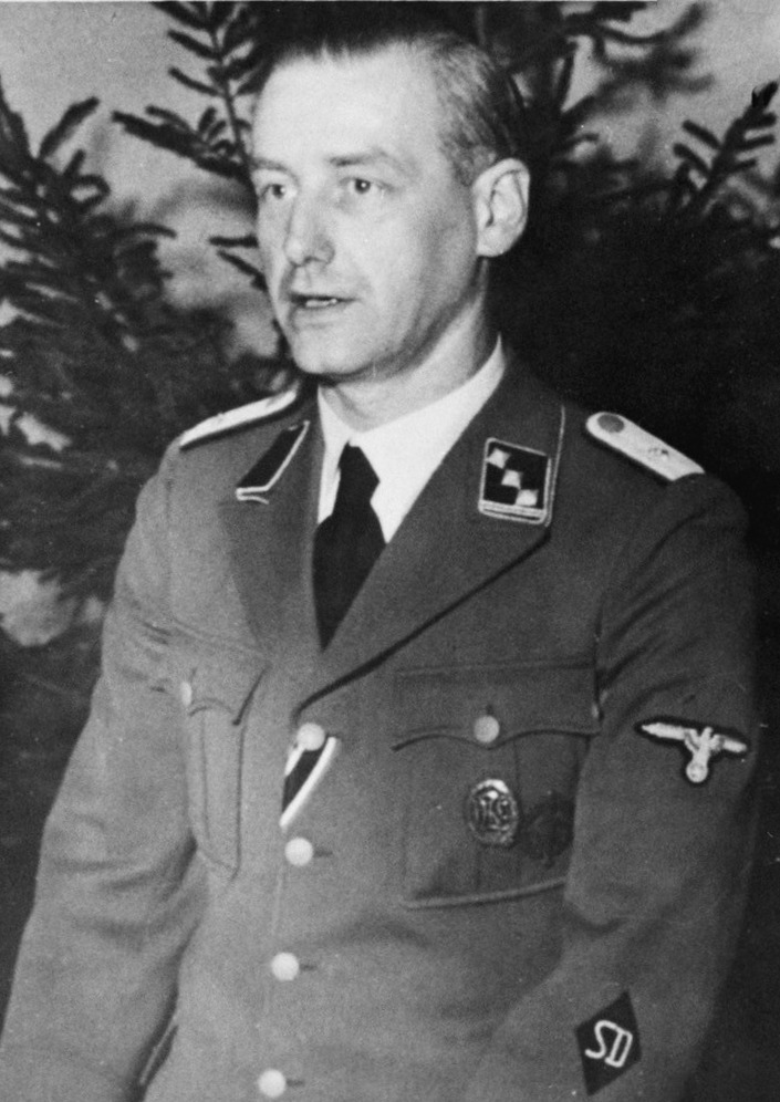 Christmas in concentration camp Westerbork (The Netherlands), "Yule", December 1942. Camp commander SS Obersturmführer Albert Konrad Gemmeker